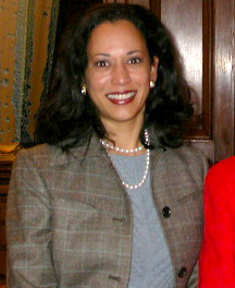 Congresswoman Pelosi meets San Francisco's District Attorney, Kamala Harris; March 30, 2004